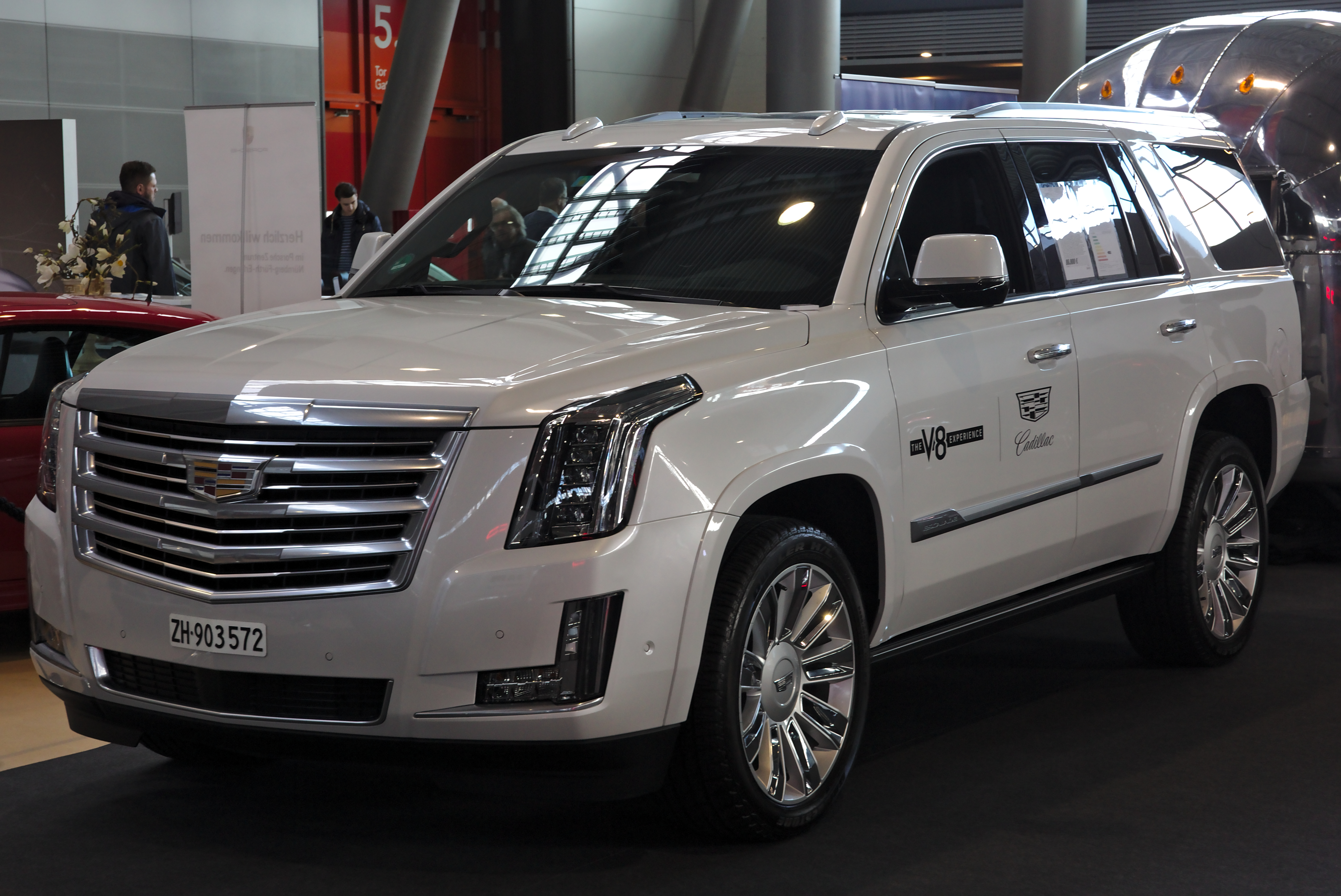 Cadillac Escalade at Retro Classics 2019